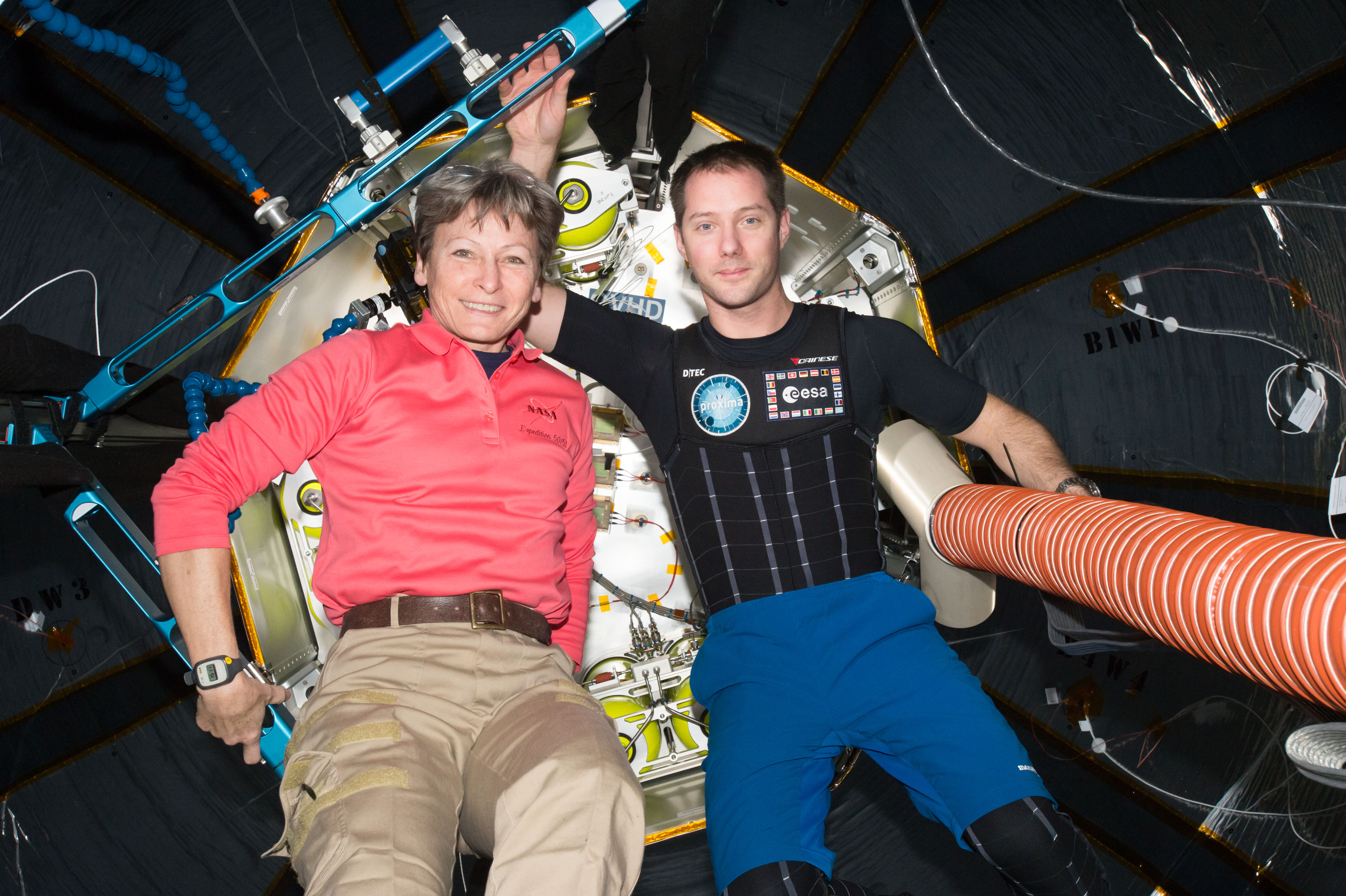 NASA astronaut Peggy Whitson (left) and ESA (European Space Agency) astronaut Thomas Pesquet are photographed inside the Bigelow Expandable Activity Module, or BEAM. BEAM is an experimental expandable module attached to the station. Expandable habitats could greatly decrease the amount of transport volume for future space missions. These "expandables" weigh less and take up less room than traditional rigid metal habitats on a rocket while allowing additional space for living and working. They also provide protection from solar and cosmic radiation, space debris, and other contaminants. Crews traveling to the moon, Mars, asteroids, or other destinations could potentially use them as habitable structures.